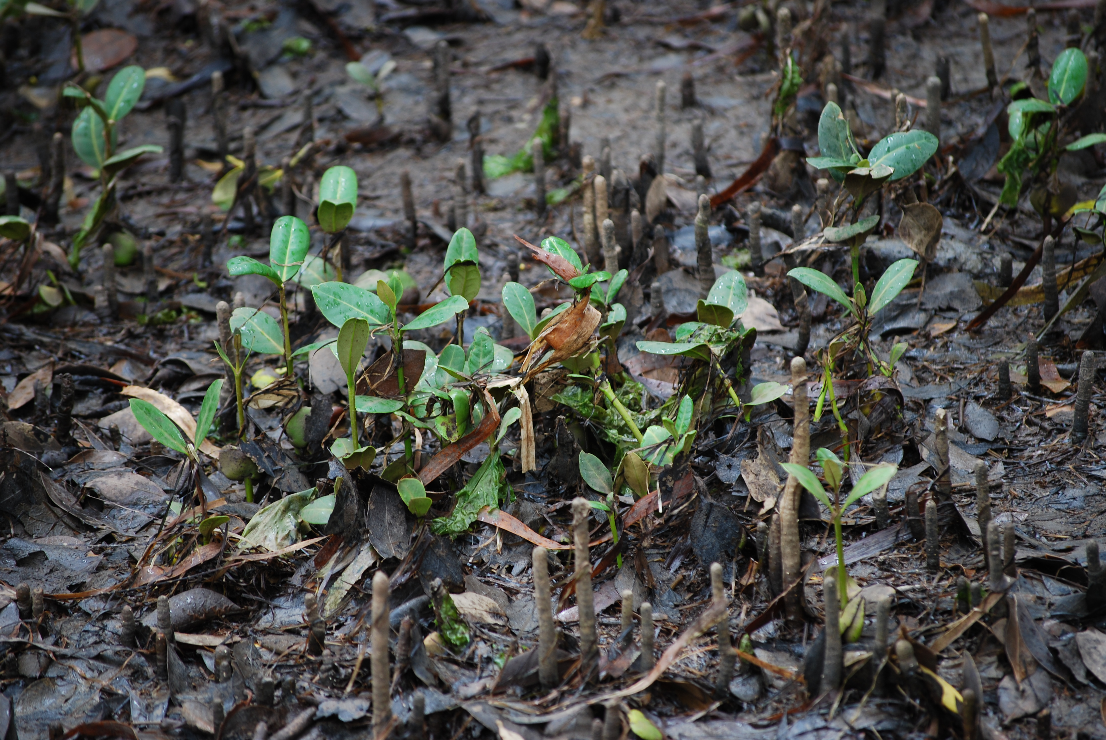 Avicennia marina var resinifera seedlings - Barker Inlet, South Australia